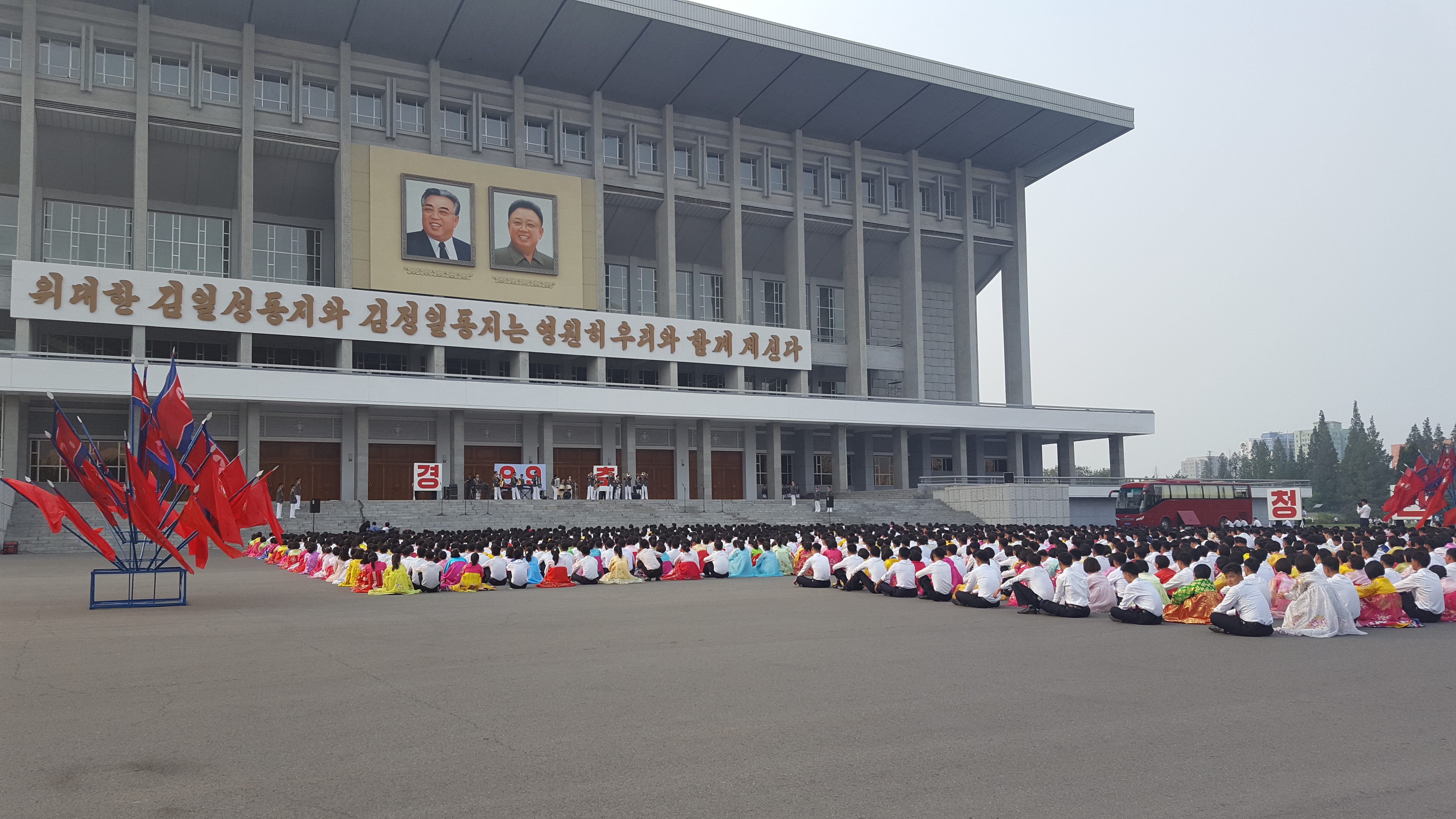 University students watched performing arts in a celebration of the 69th founding anniversary of the DPRK (9/9/2017) outside Pyongyang Indoor Stadium.